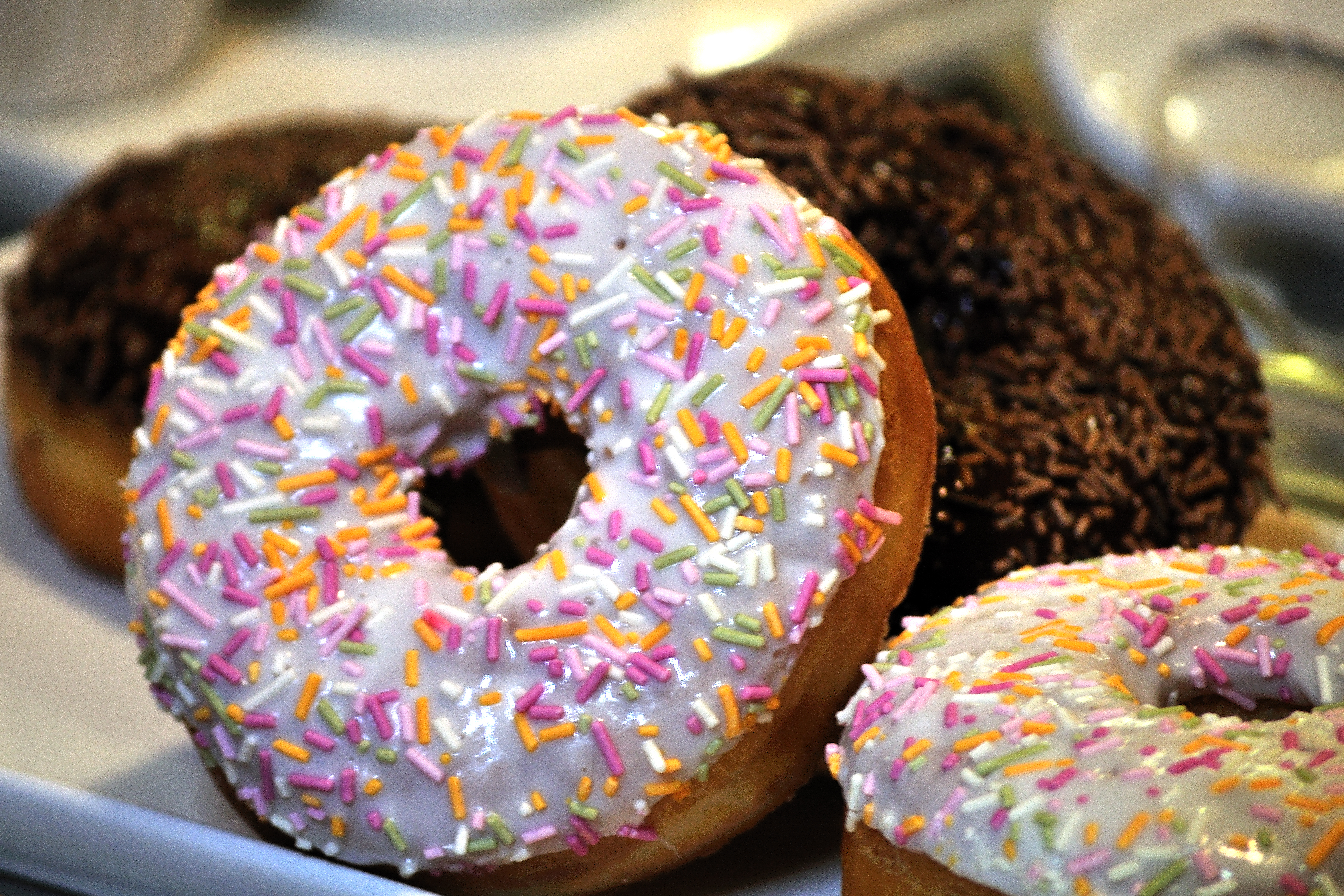 Donuts